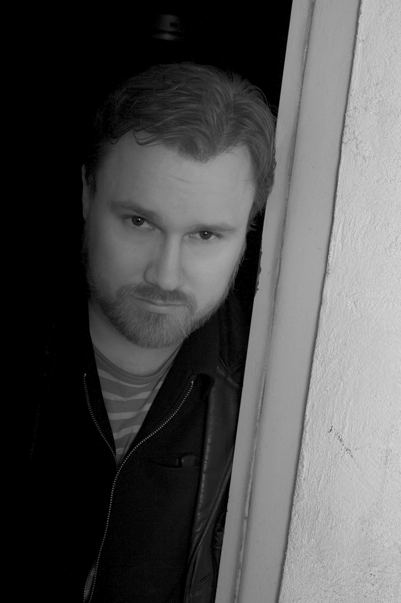 Tomi Räisänen